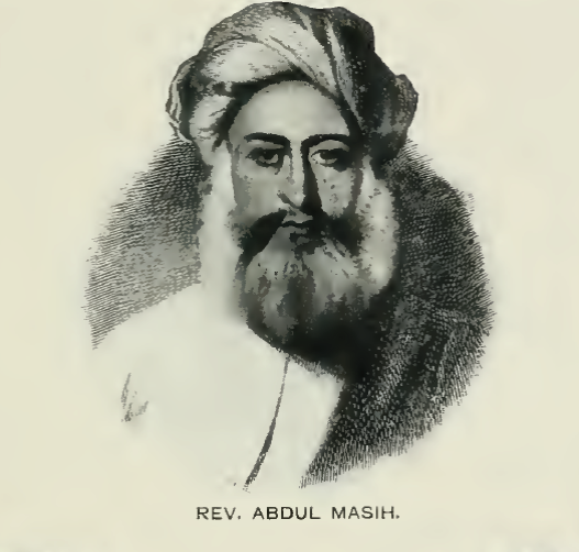 A sketch of Rev. Abdul Masih